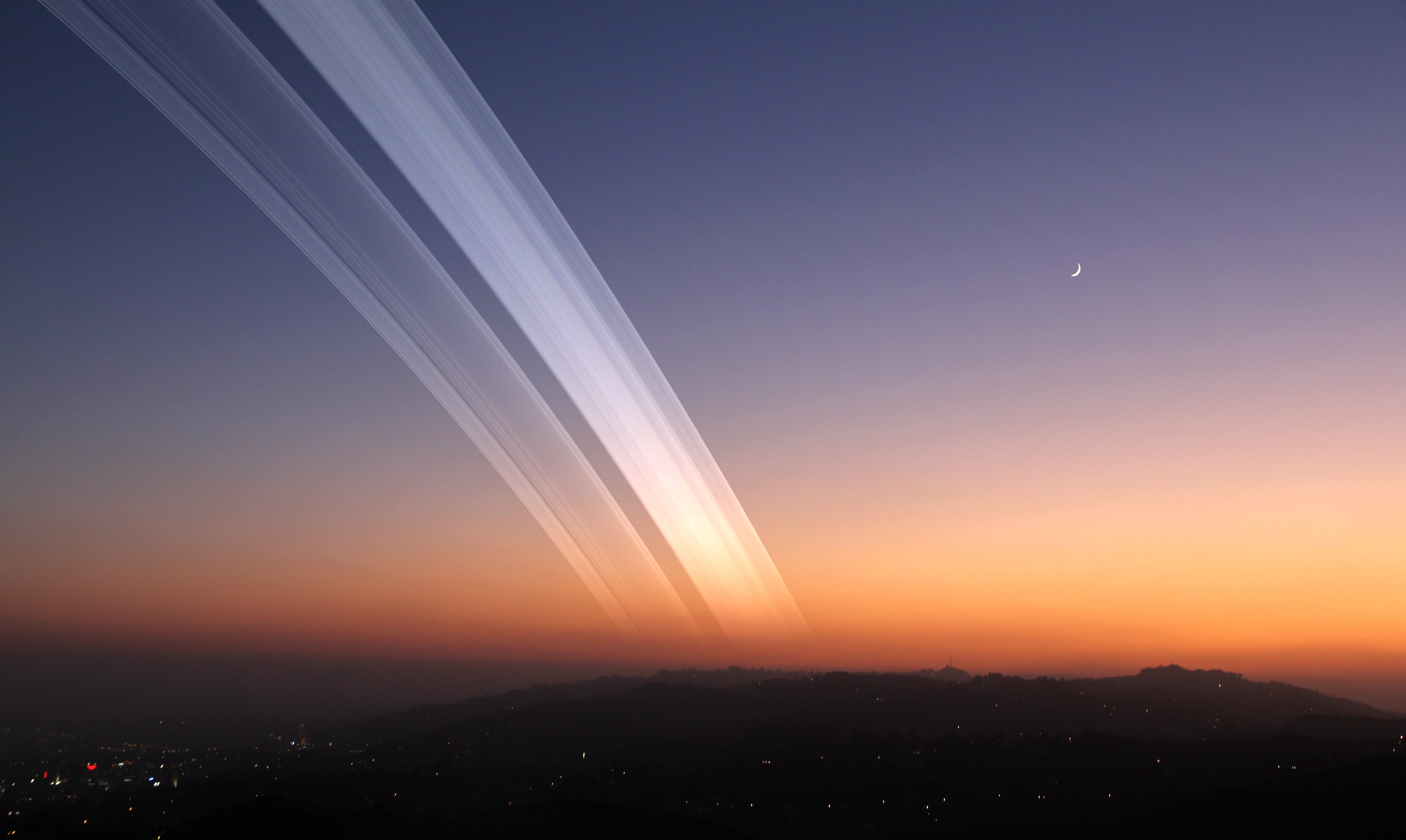 A little "what if". Angles are not exact, but it gives an idea of how a ring around the Earth would appear.